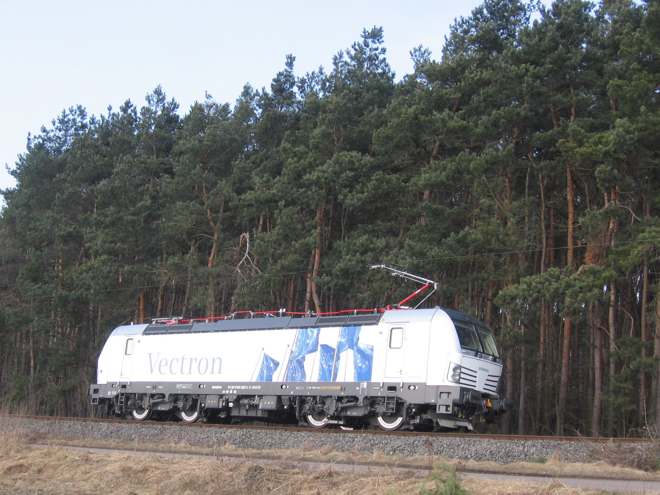 Siemens Vectron 193.922 on the little test circuit in Cerhenice (CZ).